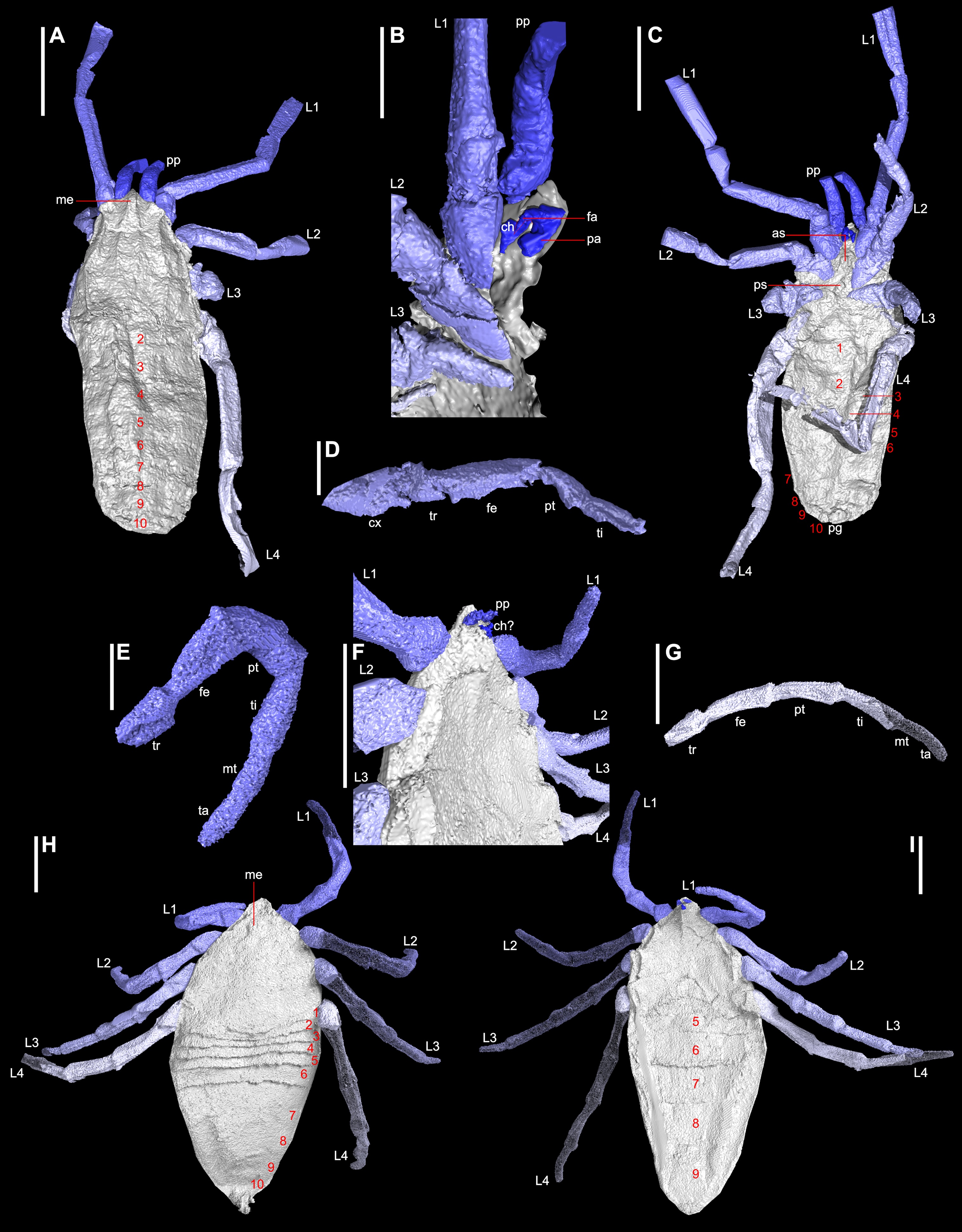 Digital visualisations of the haptopod Plesiosiro madeleyi (NHM I7923; (A)–(D)), and phalangiotarbid Goniotarbus angulatus (NHM In 22838; (E)–(I)). (A) Dorsal view of P. madeleyi, showing opisthosomal segmentation and prosomal shield architecture. (B) Lateral view of the anterior ventral prosoma, nearest limbs and lateral prosoma removed, showing the nature of haptopod chelicerae. (C) Ventral view, showing ventral segmentation, and divided sternum. (D) Haptopod walking leg. (E) First left walking leg of G. angulatus, showing typical segmentation. (F) Lateral view of the anterior ventral prosoma, showing the small pedipalps, median ridge, and possible chelicerae—below the resolution of the scan. (G) Fourth right walking leg. (H) Dorsal view showing median eyes and dorsal opisthosomal segmentation. (I) Ventral view showing opisthosomal segmentation and coxo-sternal region. Abbreviations: 1–10, opisthosomal segment number; as, anterior sclerite; ch, chelicerae; cx, coxa; fa, fang; fe, femur; L1–L4, walking legs 1–4; me, media eyes; mt, metatarsus; pa, paturon; pp, pedipalps; ps, pofsterior sclerite; pt, patella; ta, tarsus; ti, tibia; tr, trochanter. Scale bars: (A, C, F–I) = 3 mm; (B, D, E) = 1 mm.